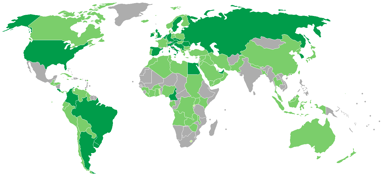 Qualification for the 1990 FIFA World Cup Country didn't participate Country withdrawed or entry didn't accepted by FIFA Country participated in the qualification tournament Country qualified to the finals